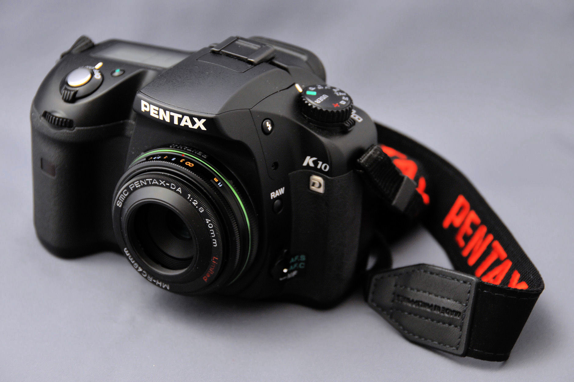 PENTAX K10D Body